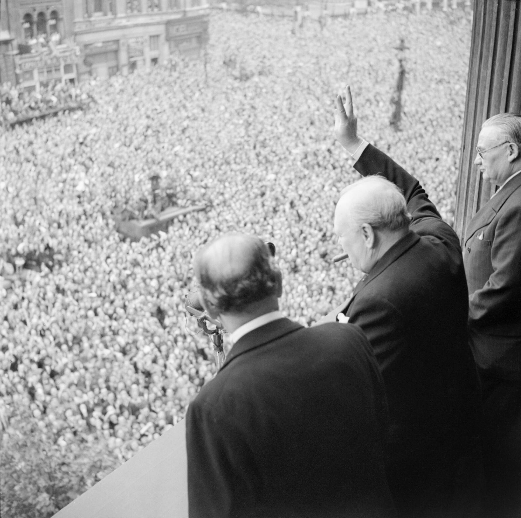 Winston Churchill waves to crowds in Whitehall in London as they celebrate VE Day, 8 May 1945. From the the balcony of the Ministry of Health, Prime Minister Winston Churchill gives his famous 'V for Victory' sign to crowds in Whitehall on the day he broadcast to the nation that the war with Germany had been won, 8 May 1945 (VE Day). To Churchill's left is Sir John Anderson, the Chancellor of the Exchequer. To Churchill's right is Ernest Bevin, the Minister of Labour.